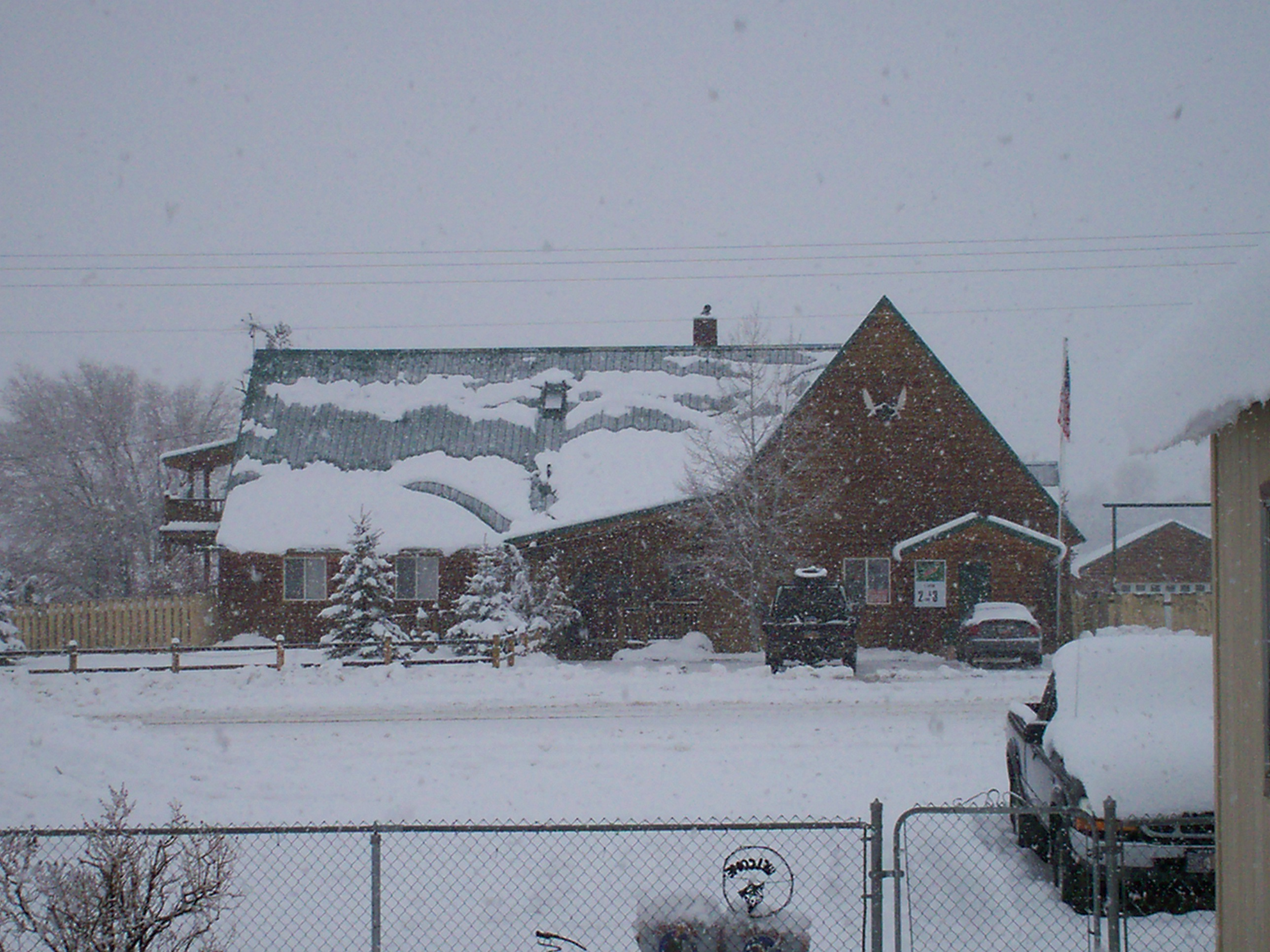 Rock Creek Store & Bed and Breakfast in Mountain Home, Utah during a snow storm in December.